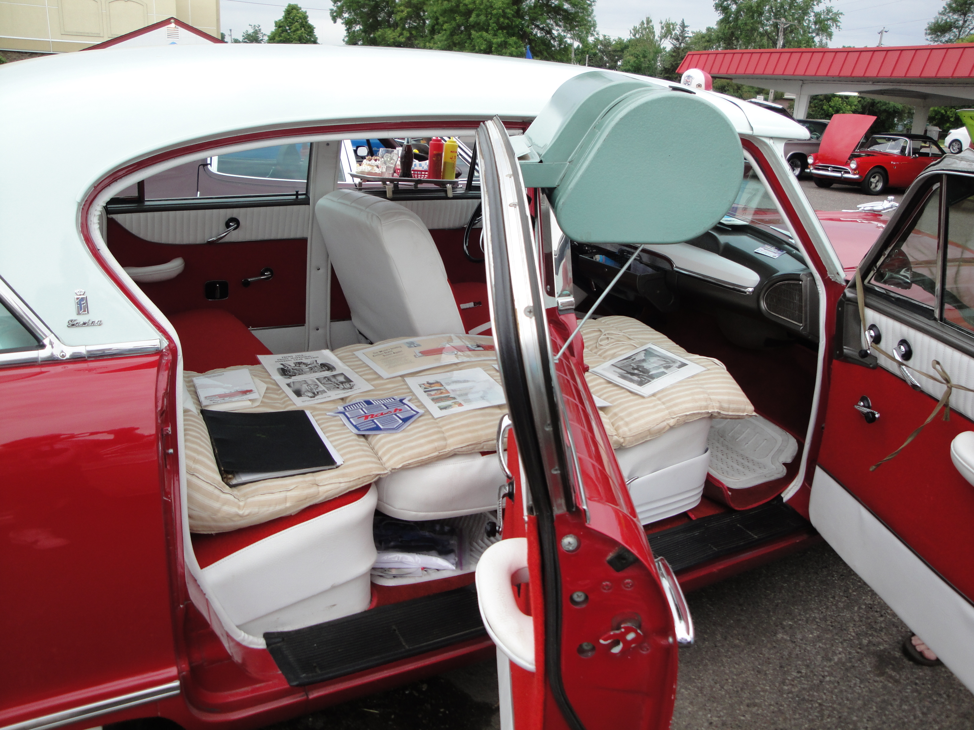 1954 Nash Ambassador at the W.P.C. Restorers Club 10,000 Lakes Region Car Show June 12, 2011 Wagner's Drive in